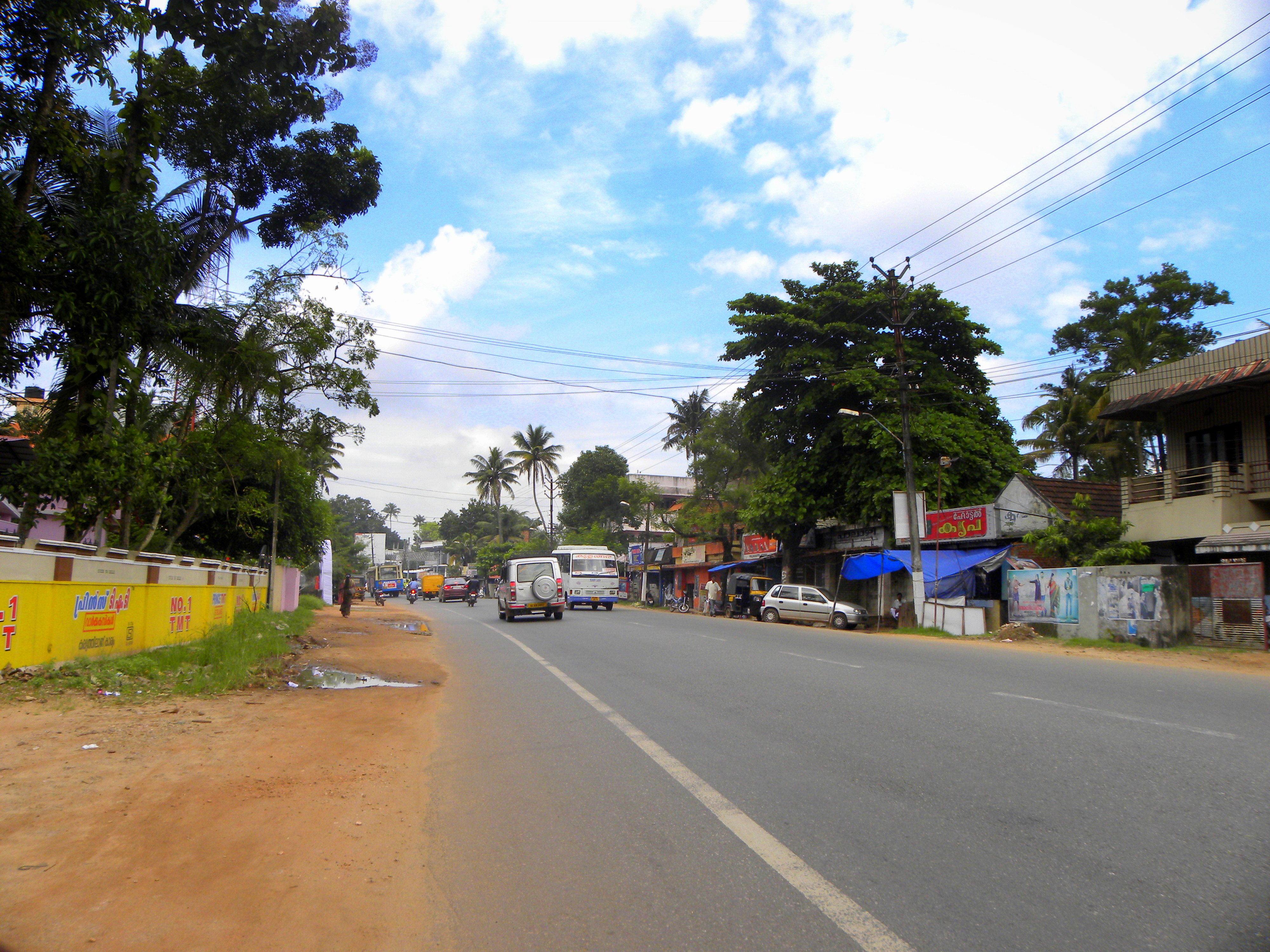 Thattamala in Kollam City is one of the traffic blackspots in Kerala state, identified by Kerala Police